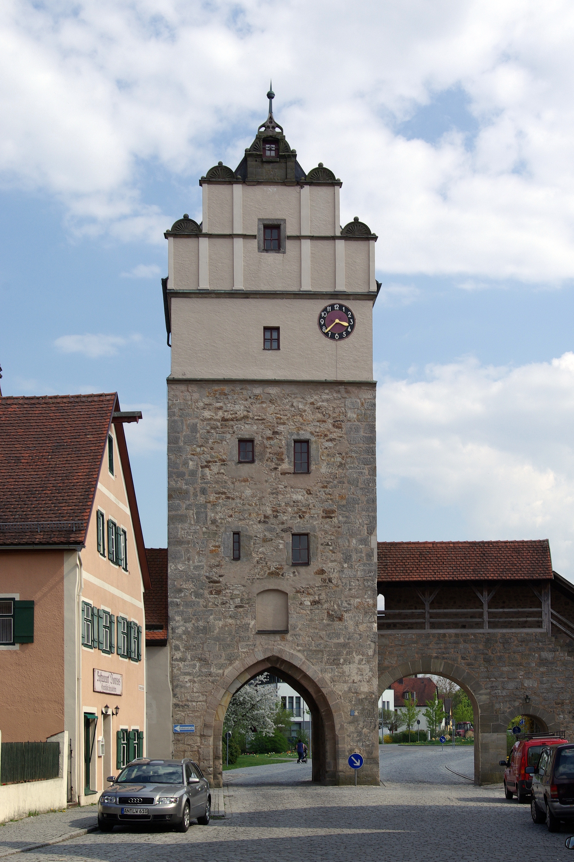 Germany, Dinkelsbühl, Nördling Gate